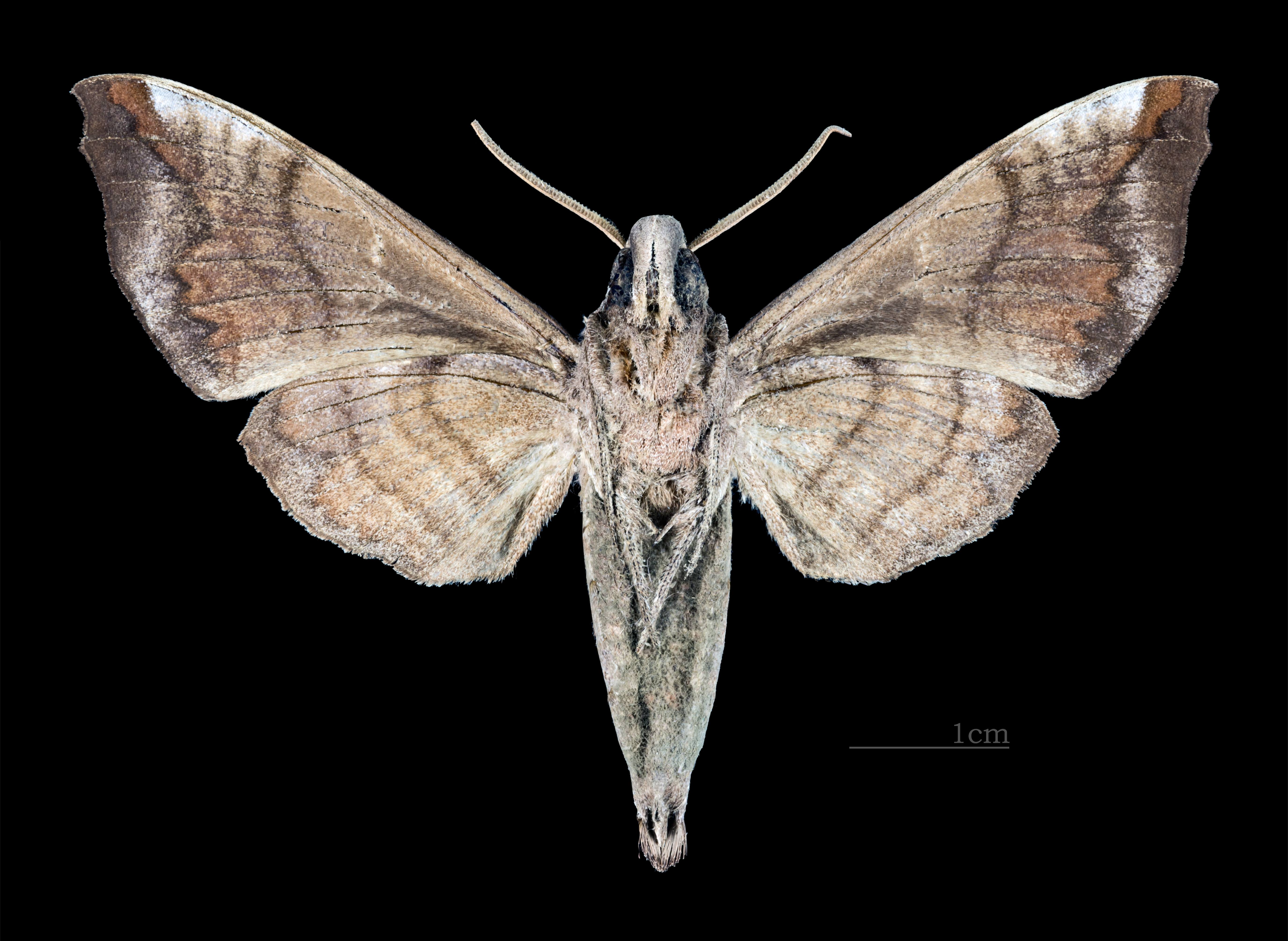 Acosmeryx socrates - △ Ventral side Collection of the Mathematician Laurent Schwartz